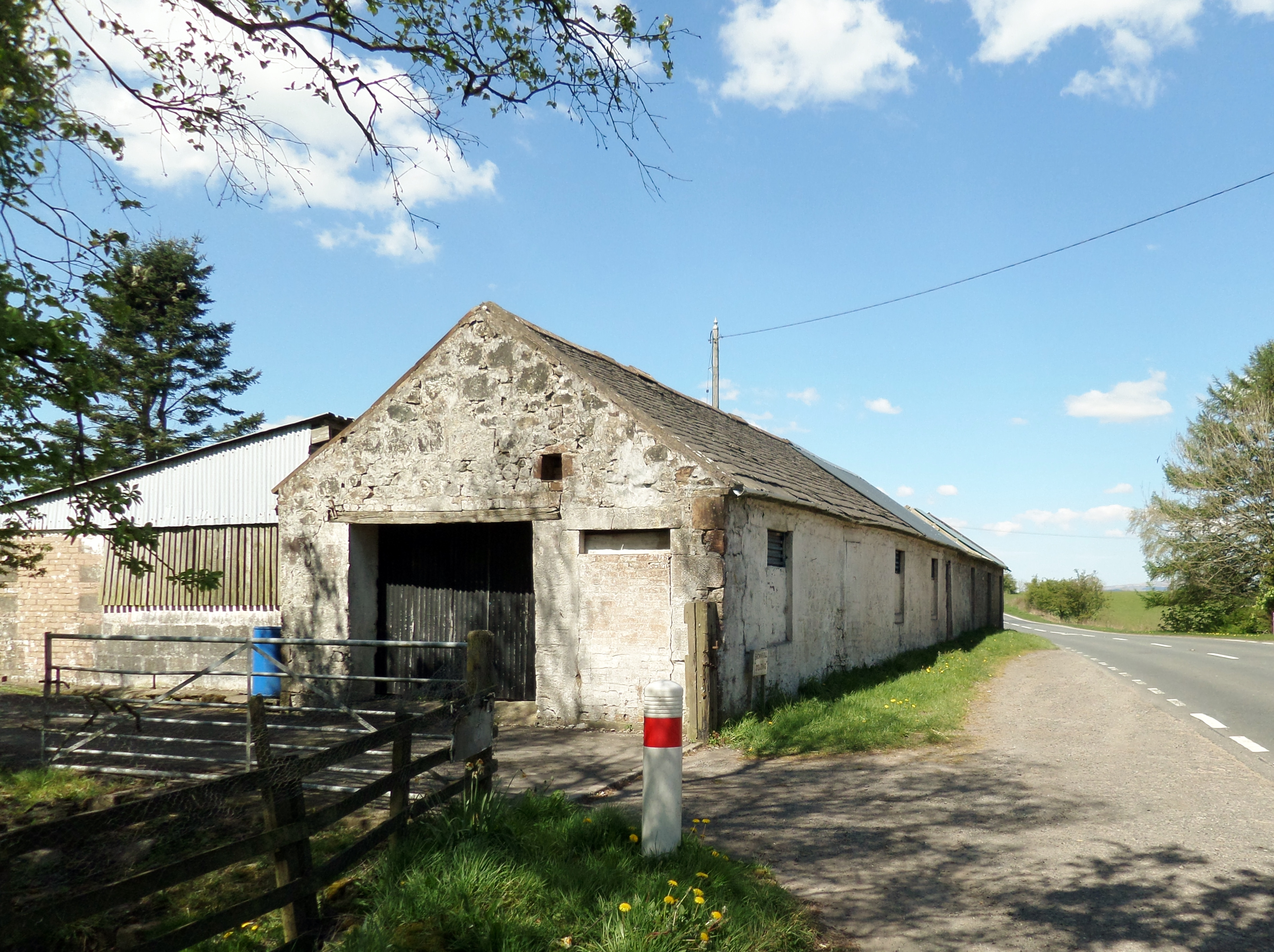 Brownhill Inn, Closeburn - view of the gable end of the steading looking towards Closeburn.